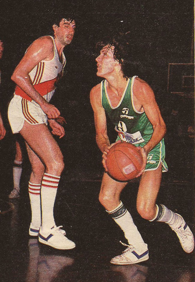 Argentine basketball player Marcelo Milanesio, in action vs. River Plate.